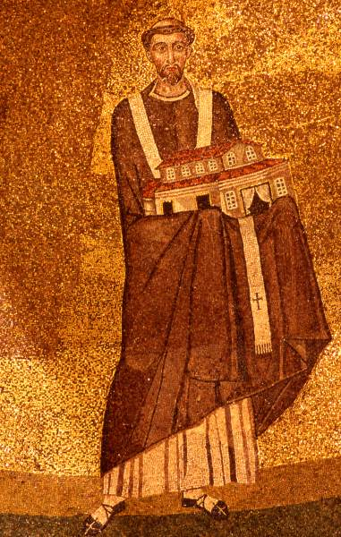 Mosaic depicting Pope Honorius I, from the basilica of Sant'Agnese fuori le mura, Rome.